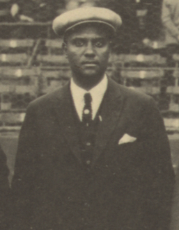 Alex Pompez at the 1924 Colored World Series. LOC states here that there are no restrictions on use of this image, therefore it is PD. This file has been extracted from another file: 1924 Negro League World Series.jpg